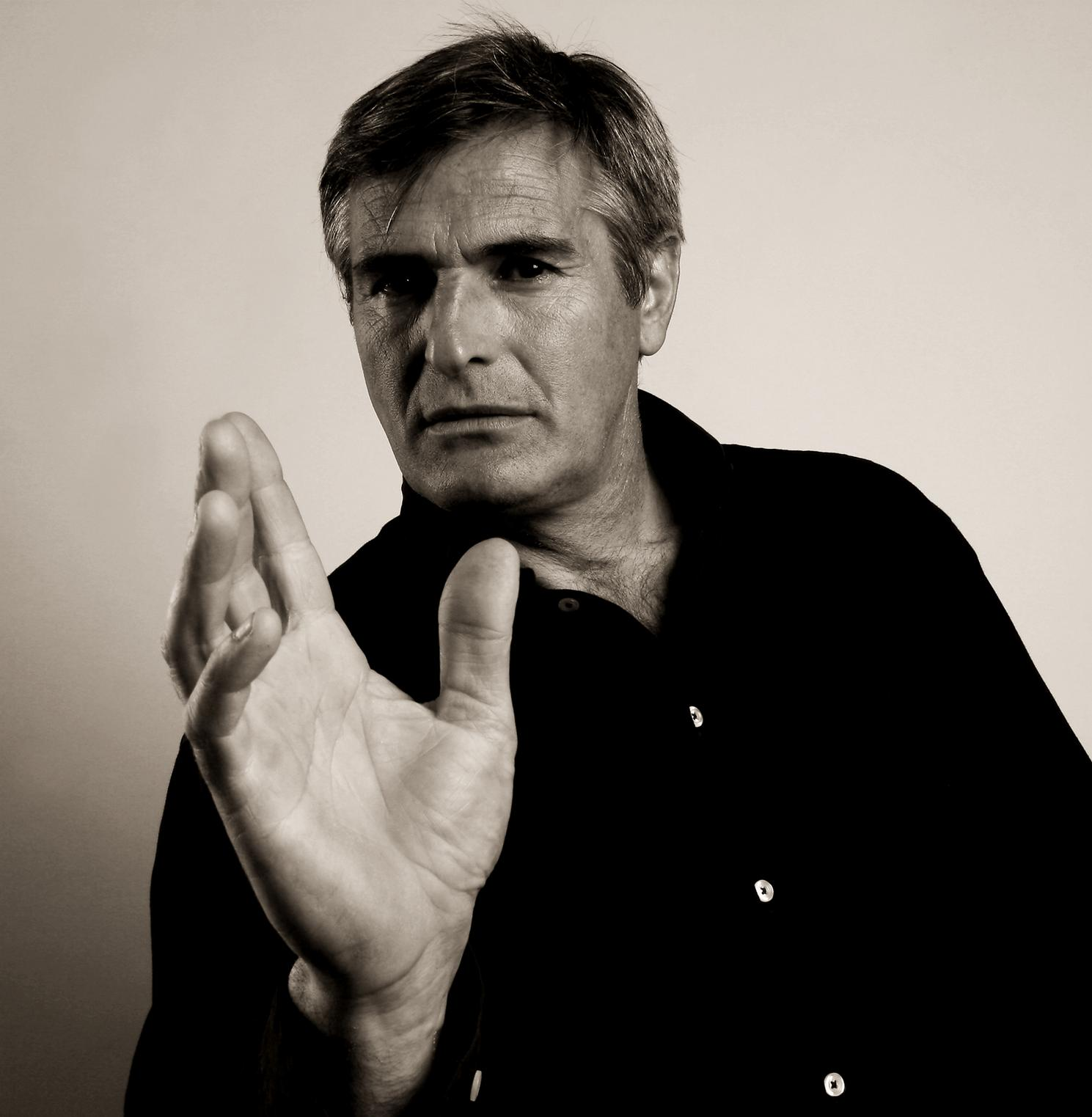 Predrag Miletić, actor from Serbia